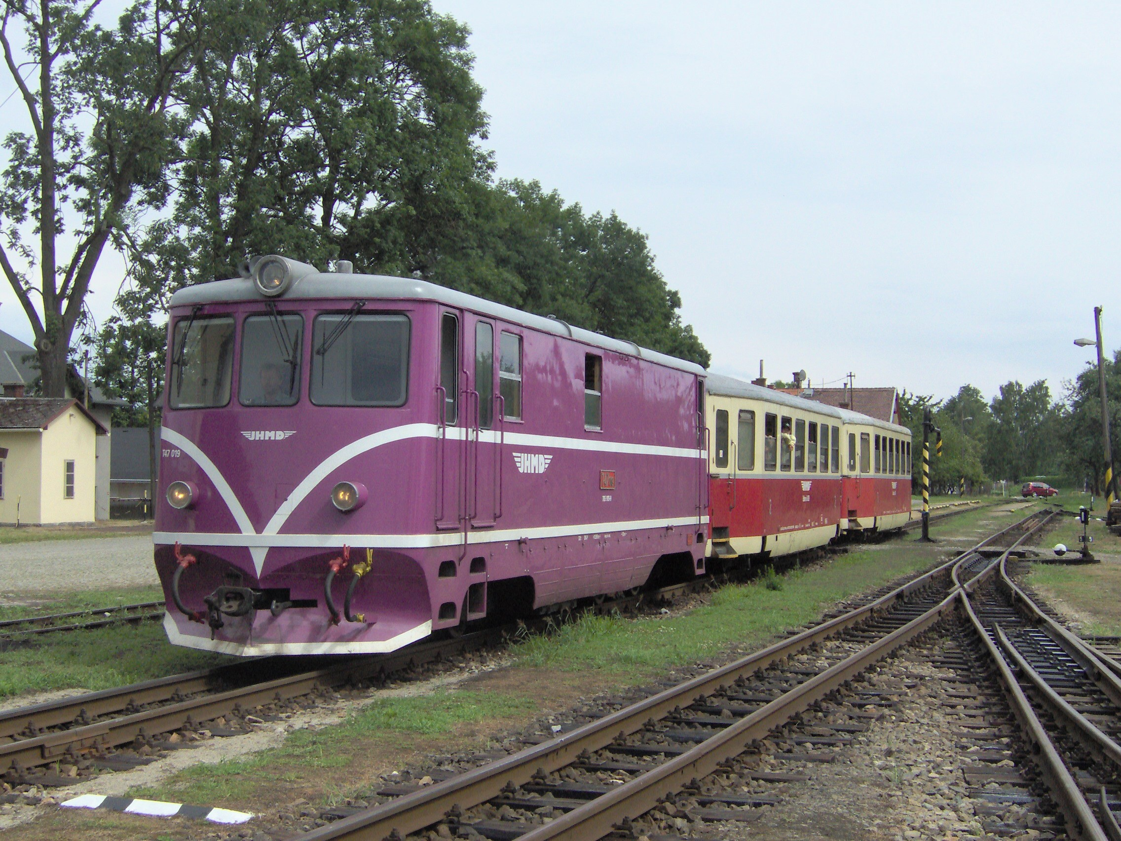 JHMD train with T 47.019 (705.919) diesel locomotive, Kamenice nad Lipou, Pelhřimov District, Czech Republic